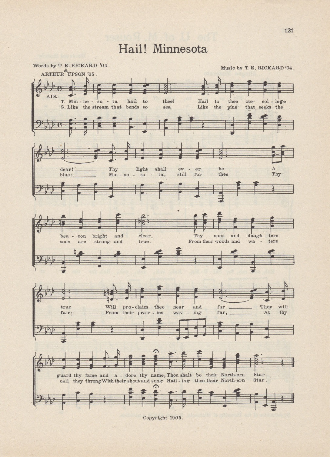 Sheet music for "Hail! Minnesota" (copyright 1905) from an early University of Minnesota song book. Credit is given as follows: Words by T.E. RICKARD '04 & ARTHUR UPSON '05 Music by T.E. RICKARD '04